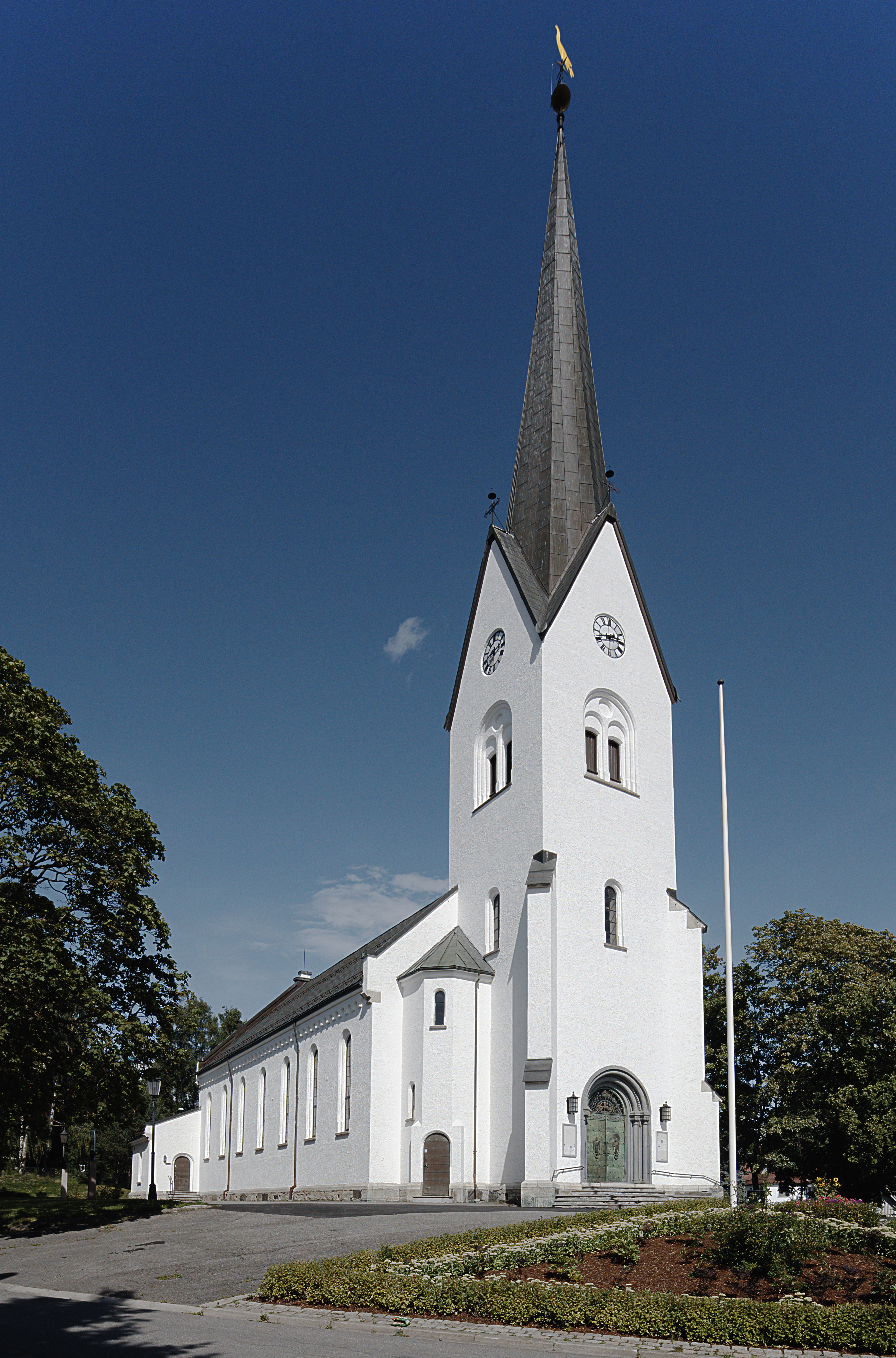 Hamar Cathedral. 2014